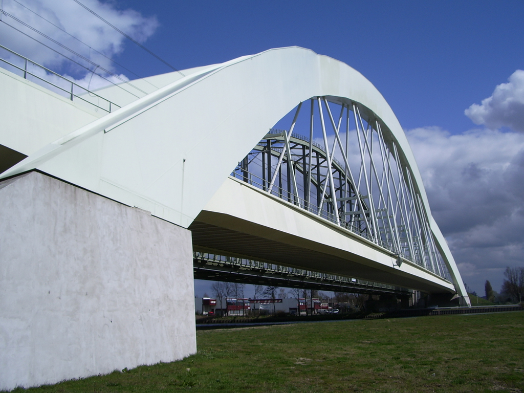 Werkspoorbrug (railwaybridge) near Utrecht, the Netherlands. April 2006.